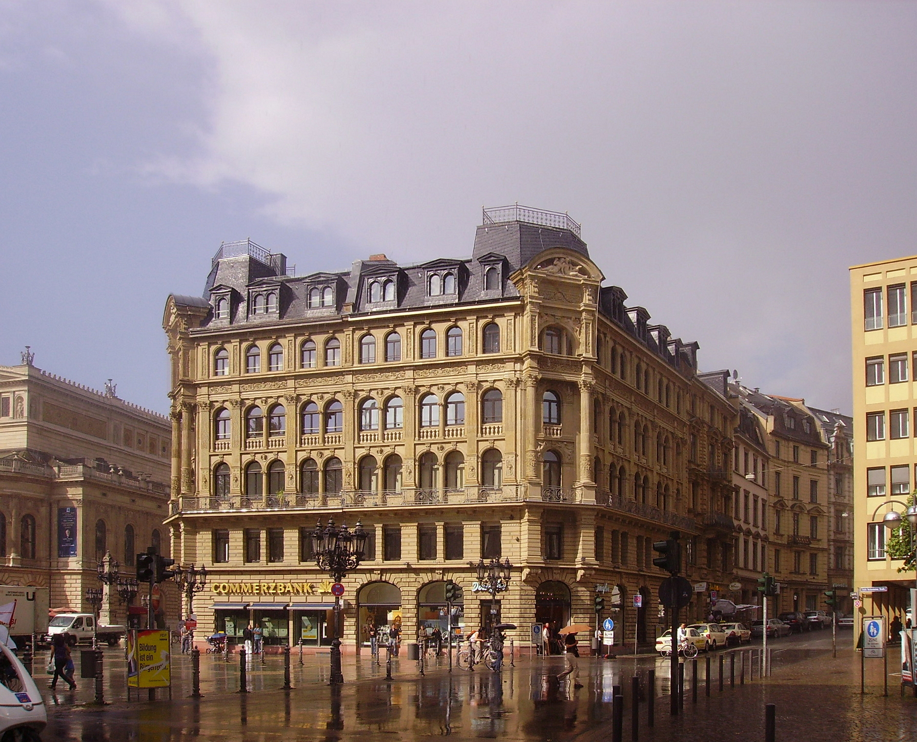 Place of the Opera, Frankfurt